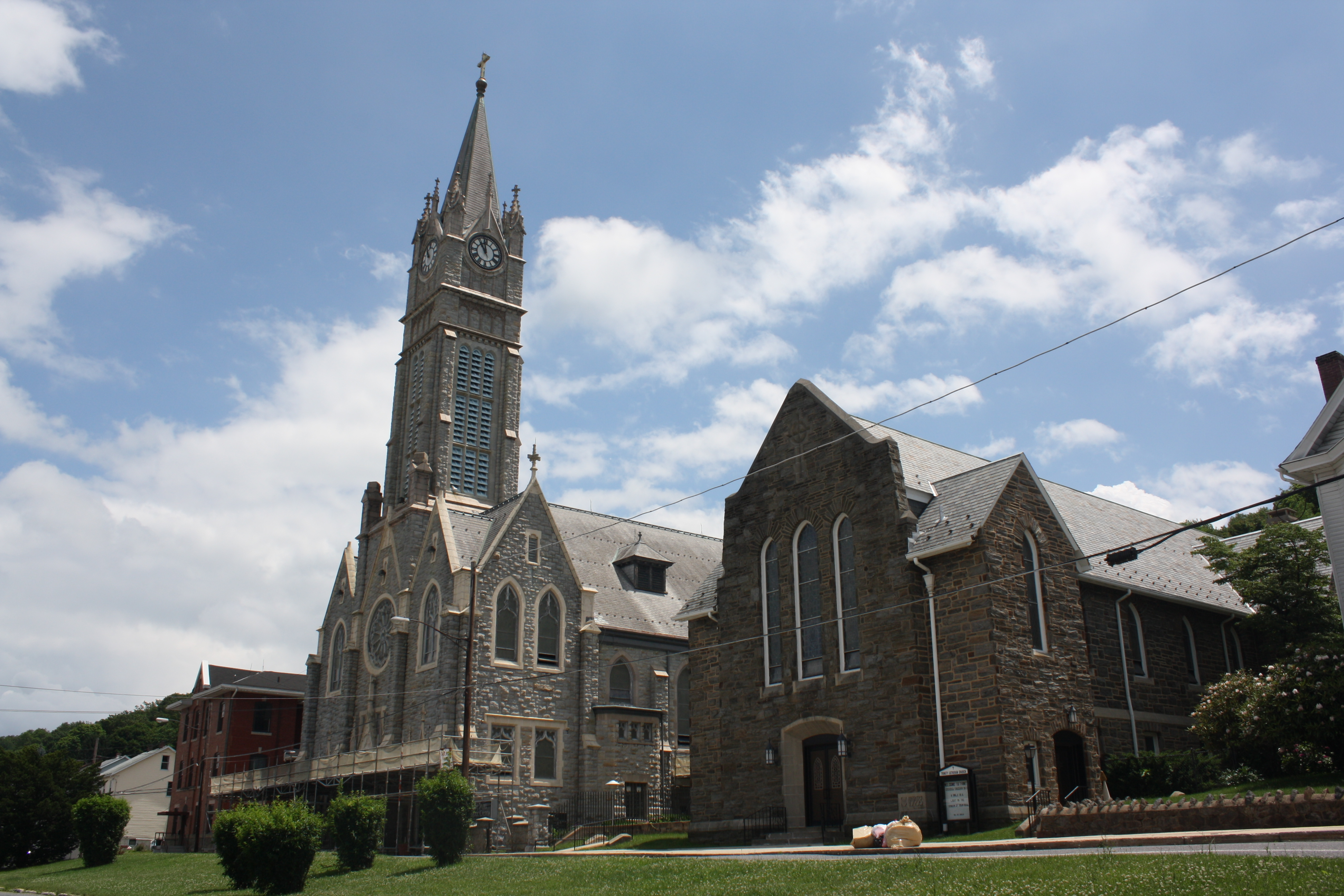 The Lansford Historic District in is a national historic district located at Lansford Carbon County, Pennsylvania. Our Lady of the Angels Academy on left, St. Katharine Drexel Parish in center, Trinity Lutheran Church on right.